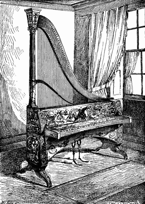 Image of a claviharp, a keyboard and harp combined. Posted at " from a 1891 source: Title Scientific American Supplement Volumes 643, 647, 664, 711, 717, 787, 794, 795, 799 and 803 Author Various Authors Publisher Munn & Co. Year 1888-1891 Copyright 1891, Munn & Co.